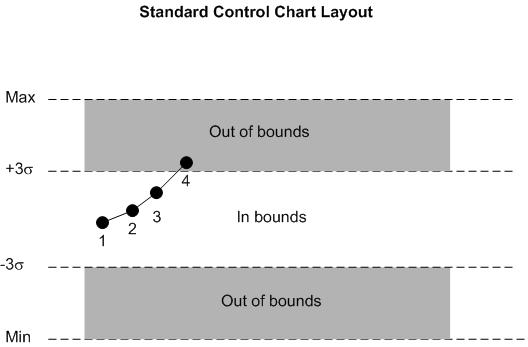 Control Chart showing sequence going out of control